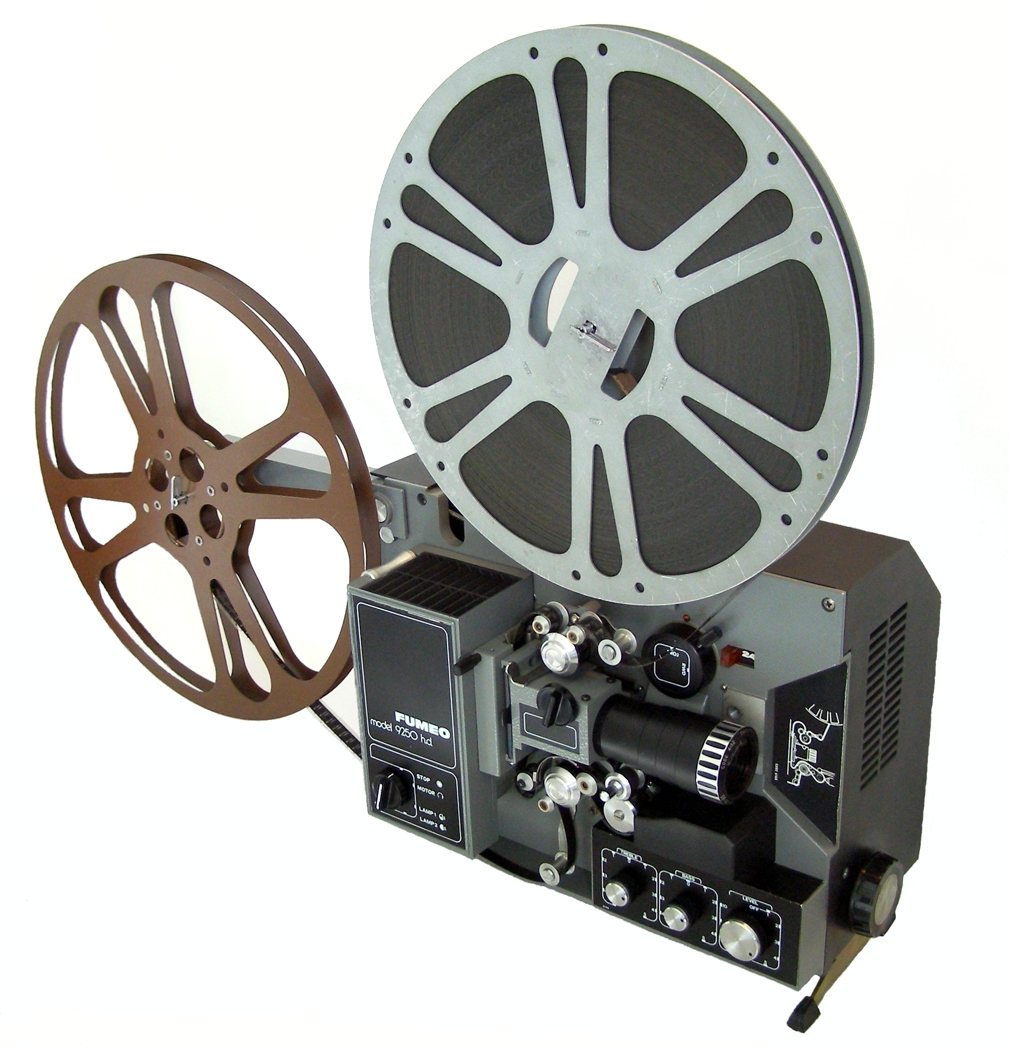 A film projector Fumeo model 9250 hd, a semi-professional 16mm projector of seventies.